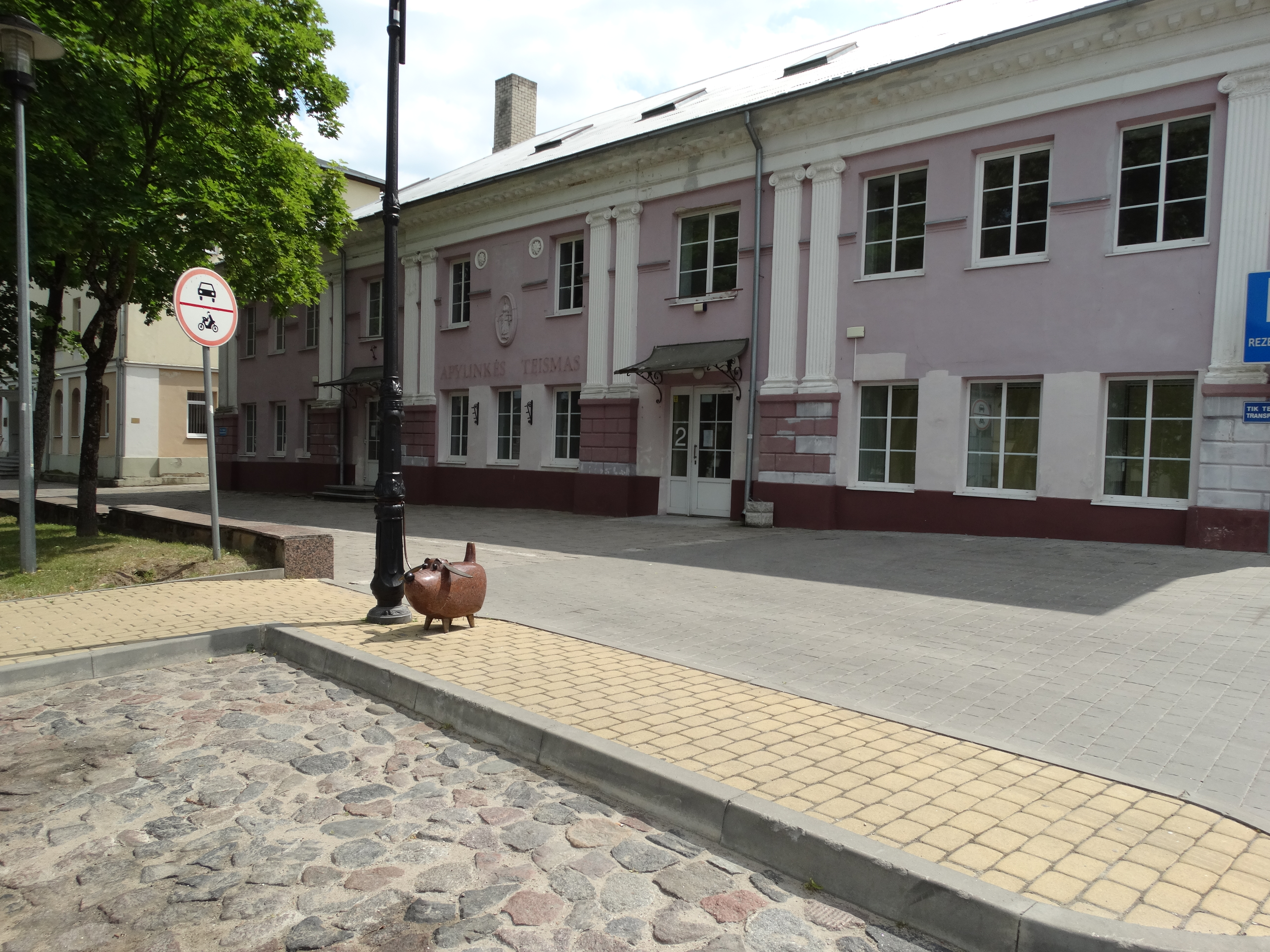 Court, Ukmergė, Lithuania